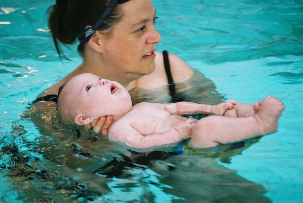 Archie has a swimming lesson with his mum. Demonstration of an appropriate way to support an infant in the water during swim lessons.